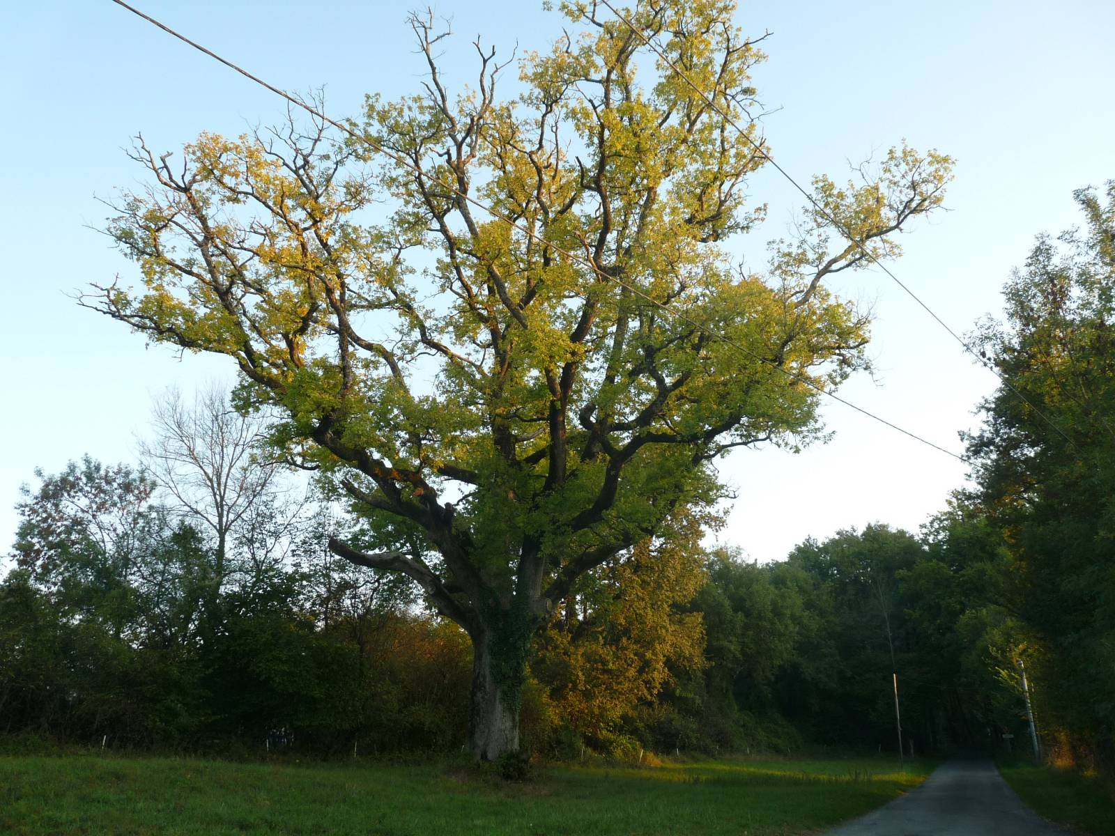 old oak tree near Dirac, Charente, SW France